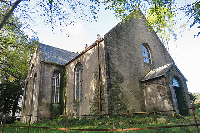 Former Boharm Parish Kirk (2)